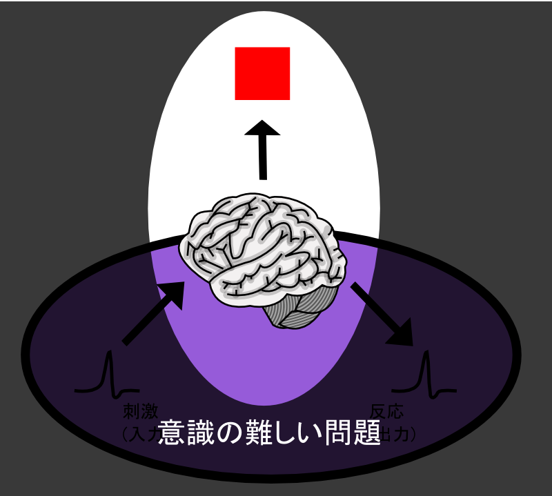 Diagram of hard problem of consciousness, Japanese version.